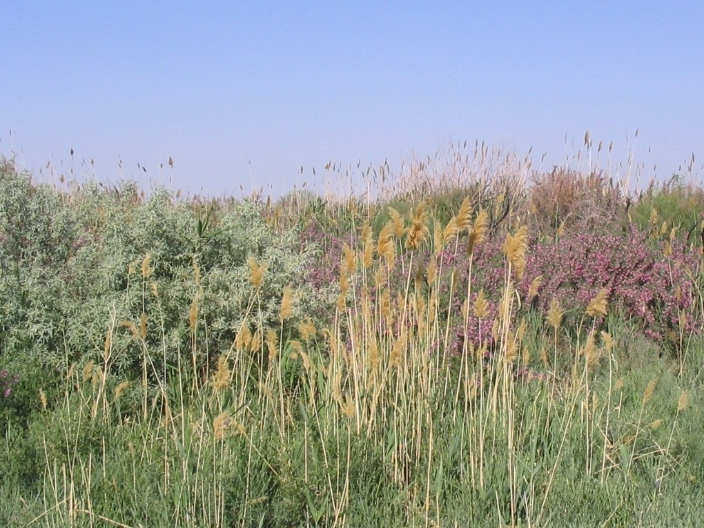 Tugai (riparian forest) of the river Syr-Darya. Qyzylorda Province of Kazakhstan Тугаи реки Сырдарья. Кызылординская область Казахстана.